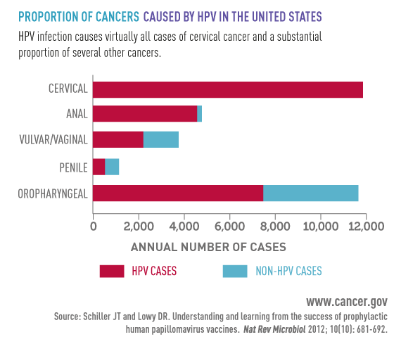 Proportions of HPV in cancer in USA